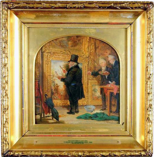 Portrait of J. M. W. Turner on Varnishing Day by William Parrot (1813–after 1891)